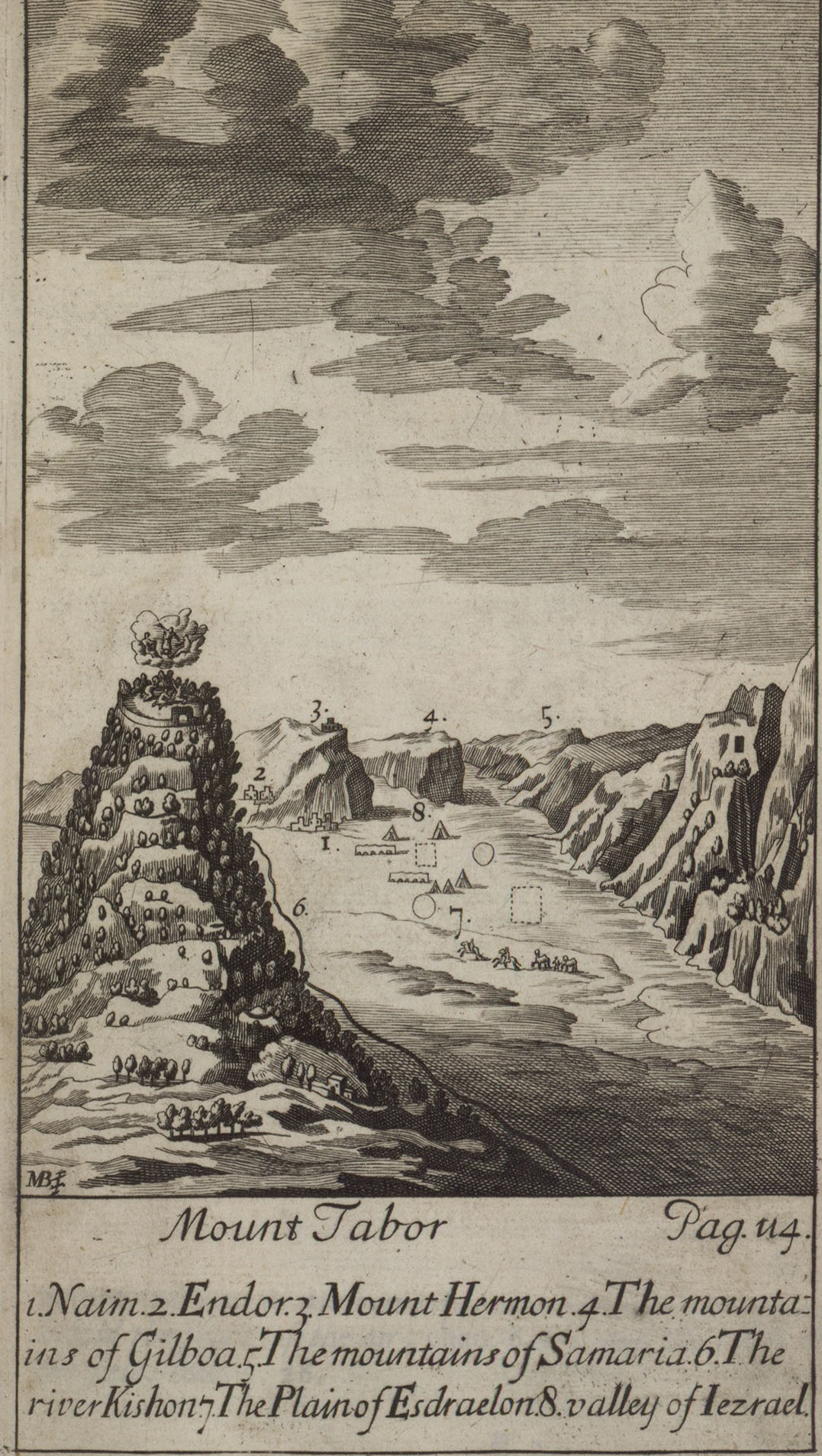 A map of Mount Tabor from 1714